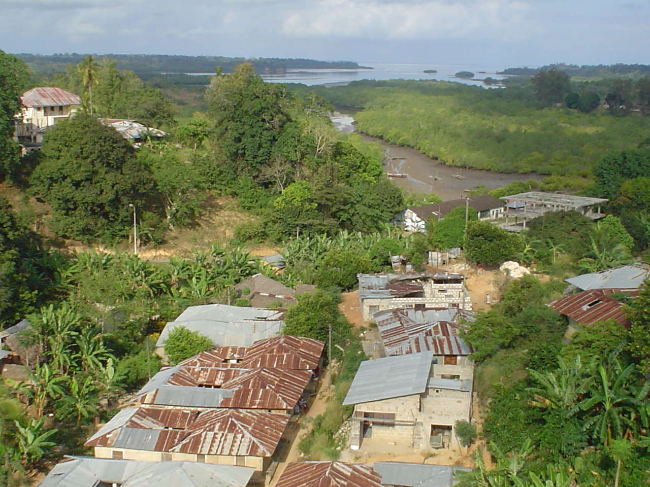 Pemba Island, Tanzania. View from Chake-Chake town center over the mangroves towards the Indian Ocean (Pemba Channel).